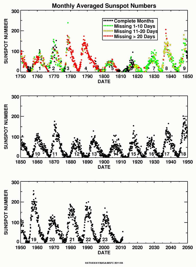 International sunspot number since en:1750. Category:Solar phenomena Afbeelding:Zurich sunspot number since 1750.png